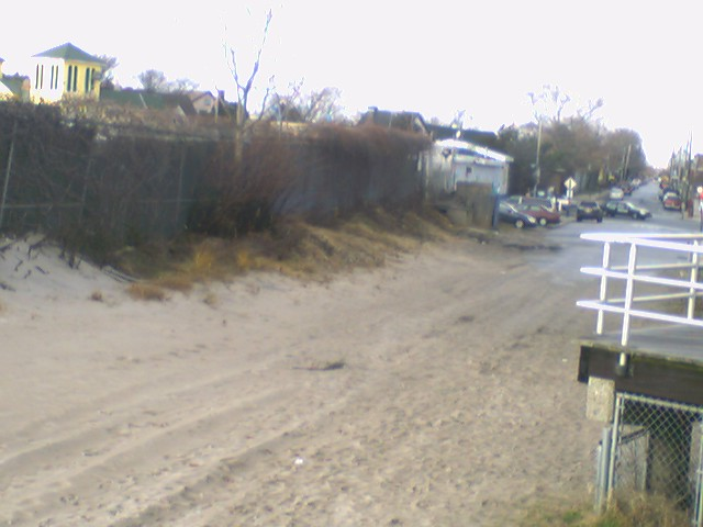 This photograph was taken from the very end of the boardwalk, looking down West 37th Street. The yellow building seen inside the gate is the Riviera, a once popular hangout, now owned by the Sea Gate Beach Club. The eastern border of Seagate, is fenced on its entire extent.